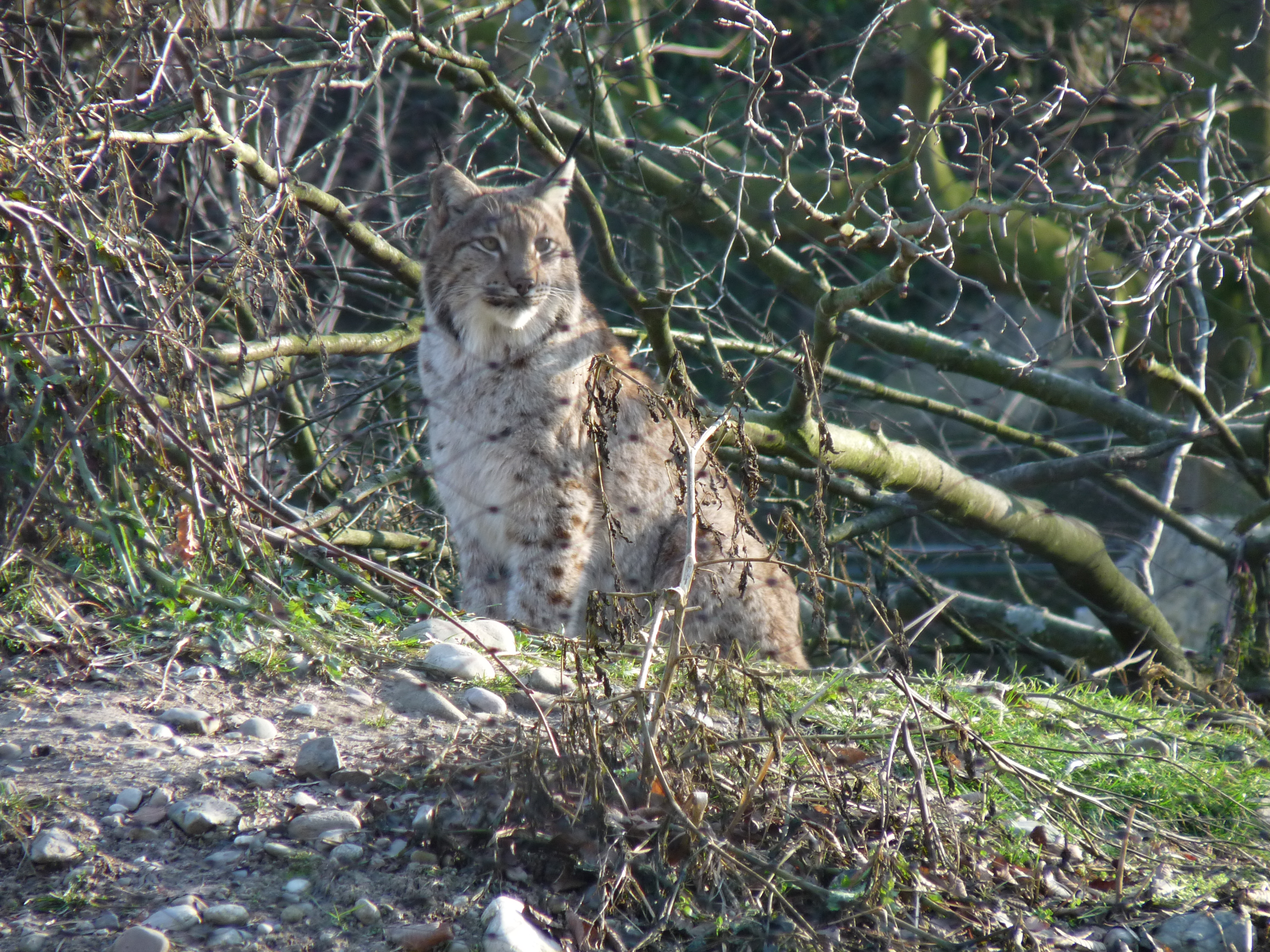 Eurasian Lynx in 'Tierpark Lange Erlen', Basel, Switzerland